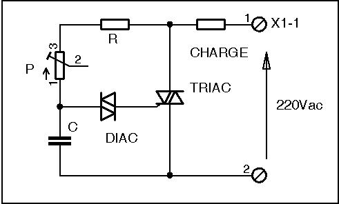 Basic AC variator